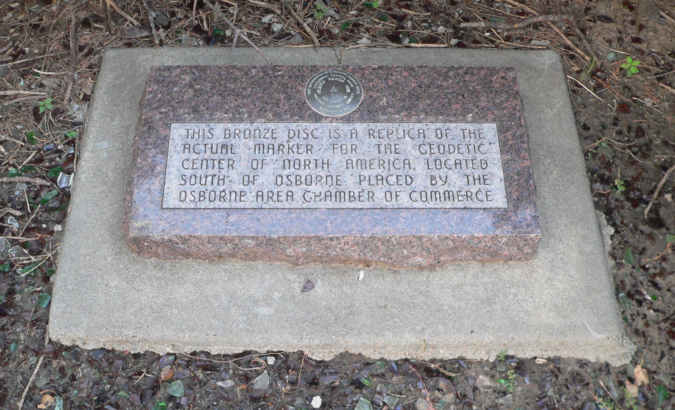 Stone monument below state historical marker in roadside rest stop on outskirts of Osborne, Kansas, describing the geodetic center of North America.